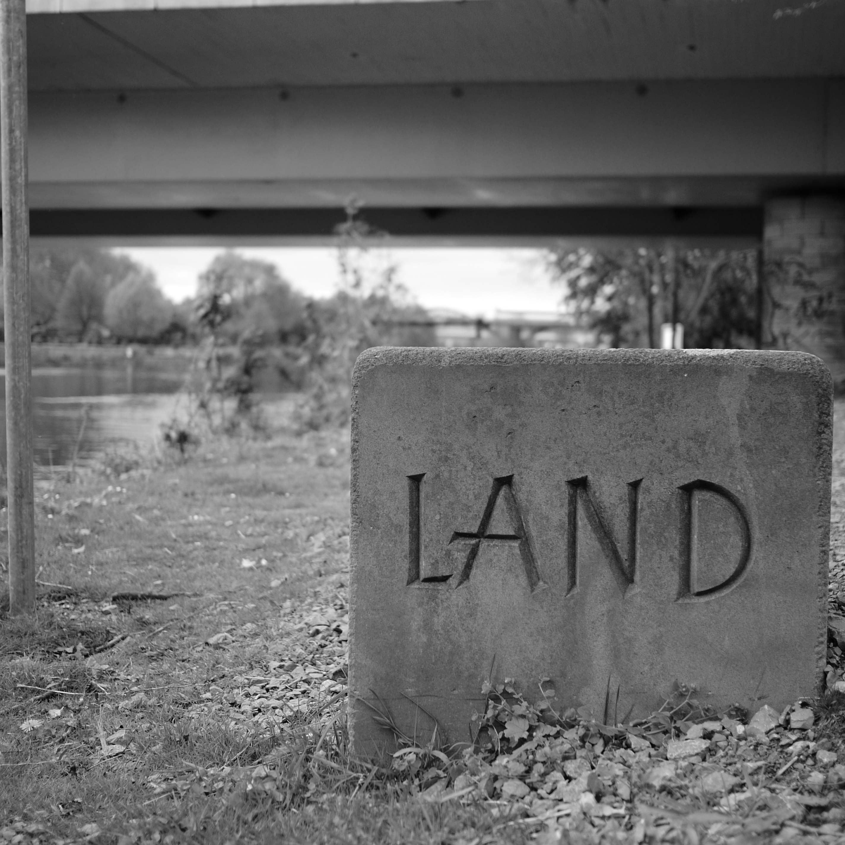 Boundary Stone marking the district border between provincial and federal waterway authorities on the river Ruhr, Germany